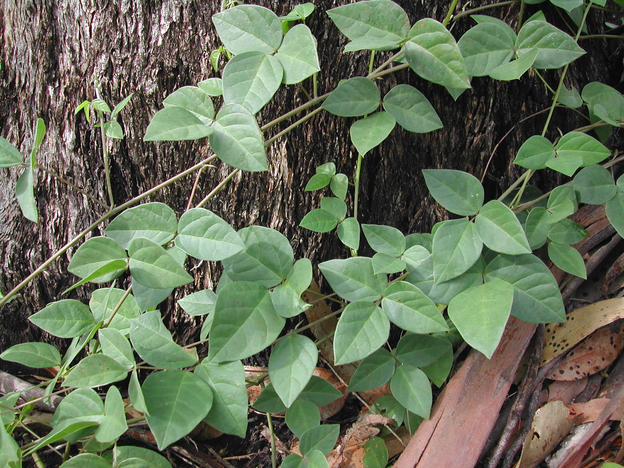 Introduced, warm-season, perennial, hairless to very hairy, trailing or twining legume. Leaves have 3 ovate leaflets, which are hairless to hairy, slightly glossy above, matt underneath and to 7.5 cm long. Flowerheads are short racemes in the leaf axils, with 1-2.4 cm long, white to greenish-yellow and pea-like flowers. Pods are broad and flattened; 3-8 cm long, and 5-8 mm broad. Flowering occurs over most of the growing season. A native of Africa, the Middle East and Sri Lanka, it is sown for grazing and agroforestry. Suited to well-drained moderately fertile soils, in areas out of reach of heavy frosts. It is very tolerant of drought, but not of very acid, low fertility or waterlogged conditions. Archer is the only variety sown. A high quality, productive and non-bloating species that provides early spring growth. Provides excellent standover feed for the autumn/early winter feed gap. One of the best tropical legumes for suppressing weeds. It is susceptible to continuous heavy grazing, needing long spells between grazing. Remove stock when there is still plenty of stem and some leaf (at least 15 cm height) to maximise persistence and production. The more leaf left on the plant, the faster the regrowth.